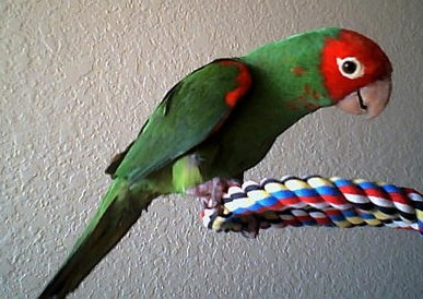 Gillespie, a Cherry-headed Conure from the wild San Francisco flock, was surrendered to Mickaboo Companion Bird Rescue for rehabilitative care.